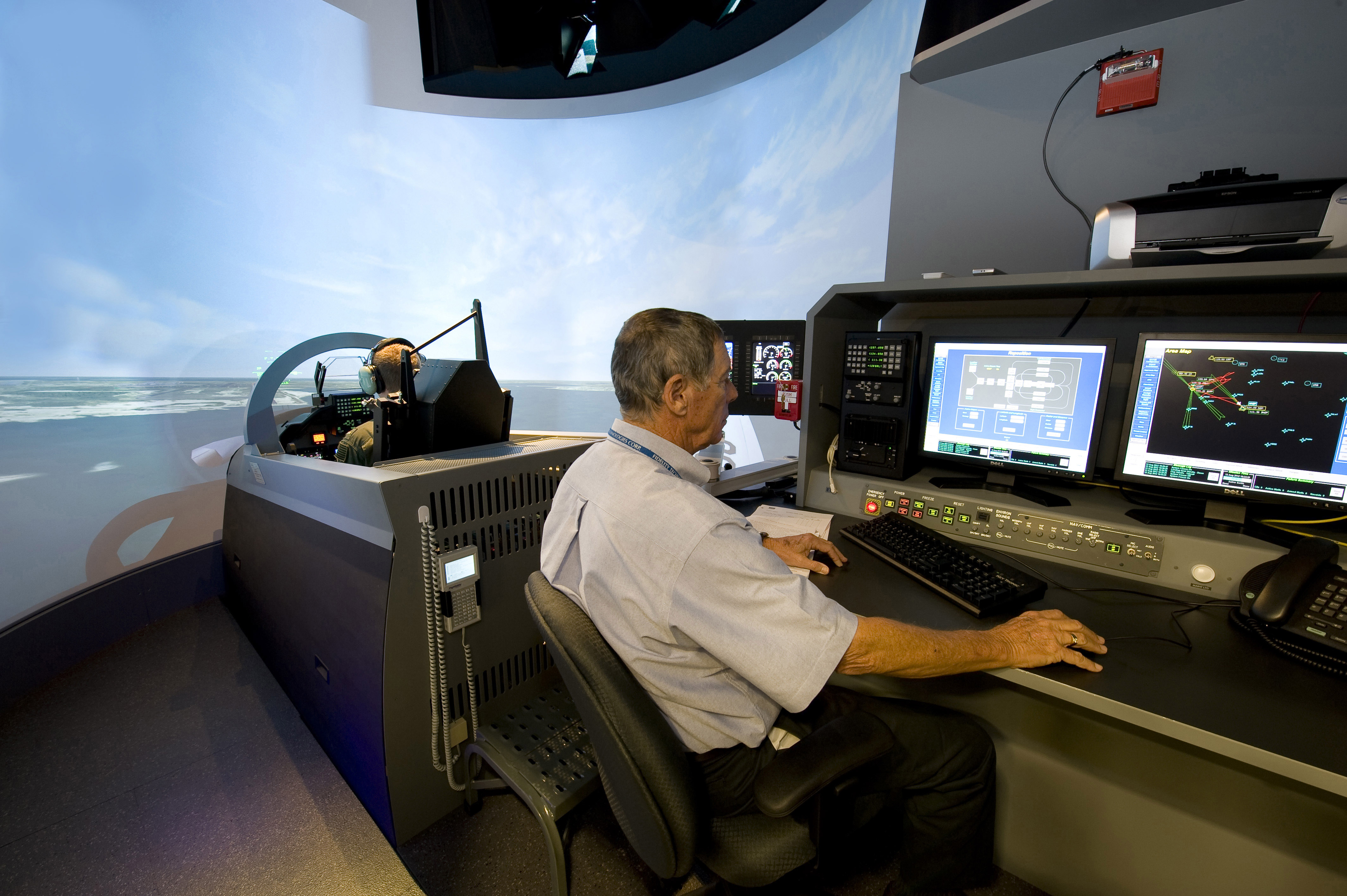 CORPUS CHRISTI, Texas (Aug. 13, 2012) Ensign John Berry, a student aviator from Training Squadron (VT) 28, navigates the new flight simulator for the T-6B Texan II training aircraft while Tony Floyd, an instructor from Fidelity Technologies, simulates the flight conditions. (U.S. Navy photo by Richard Stewart/Released) 120813-N-LY958-029 Join the conversation navylive.dodlive.mil